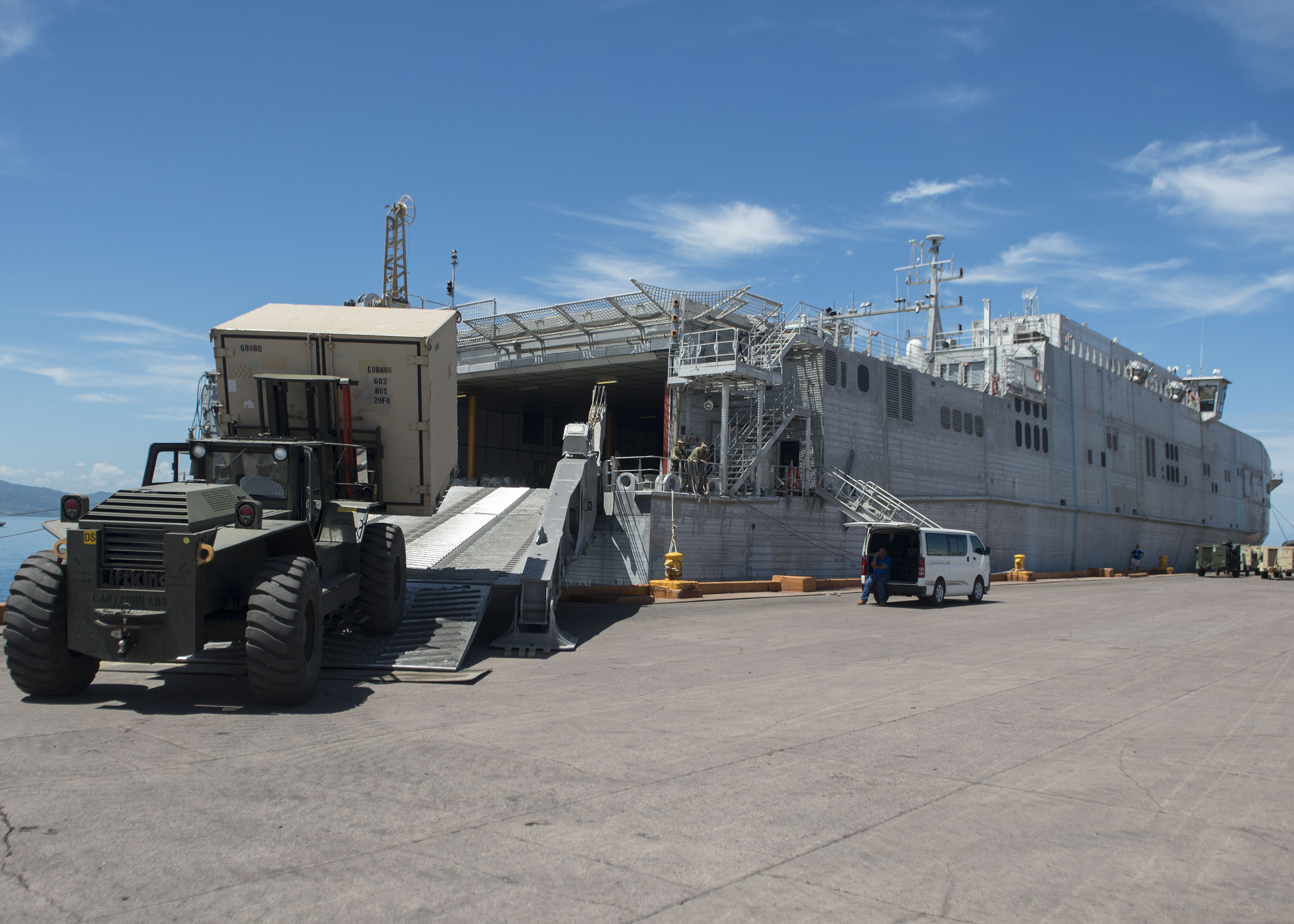 Military Sealift Command Joint High-Speed Vessel USNS Spearhead (JHSV 1) crew and service members offload gear and vehicles in support of Southern Partnership Station 2014 (SPS-JHSV 14). Southern Partnership Station 2014 is a U.S. Navy deployment focused on subject matter expert exchanges with partner nation militaries and security forces. U.S. Naval Forces Southern Command and U.S. 4th Fleet employ maritime forces in cooperative maritime security operations in order to maintain access, enhance interoperability, and build enduring partnerships that foster regional security in the U.S. Southern Command area of responsibility. (U.S. Navy photo by Mass Communication Specialist 1st Class Rafael Martie/Released) Unit: Navy Public Affairs Support Element East - (Reserve) DVIDS Tags: Child; Southern Partnership Station; Servicemembers; Belize; NAVY; Military; Air Force; Marines; partnership; Deployment; PUNTA GORDA; USNAVY; Spearhead; USNS Spearhead; SPS14; Big Creek